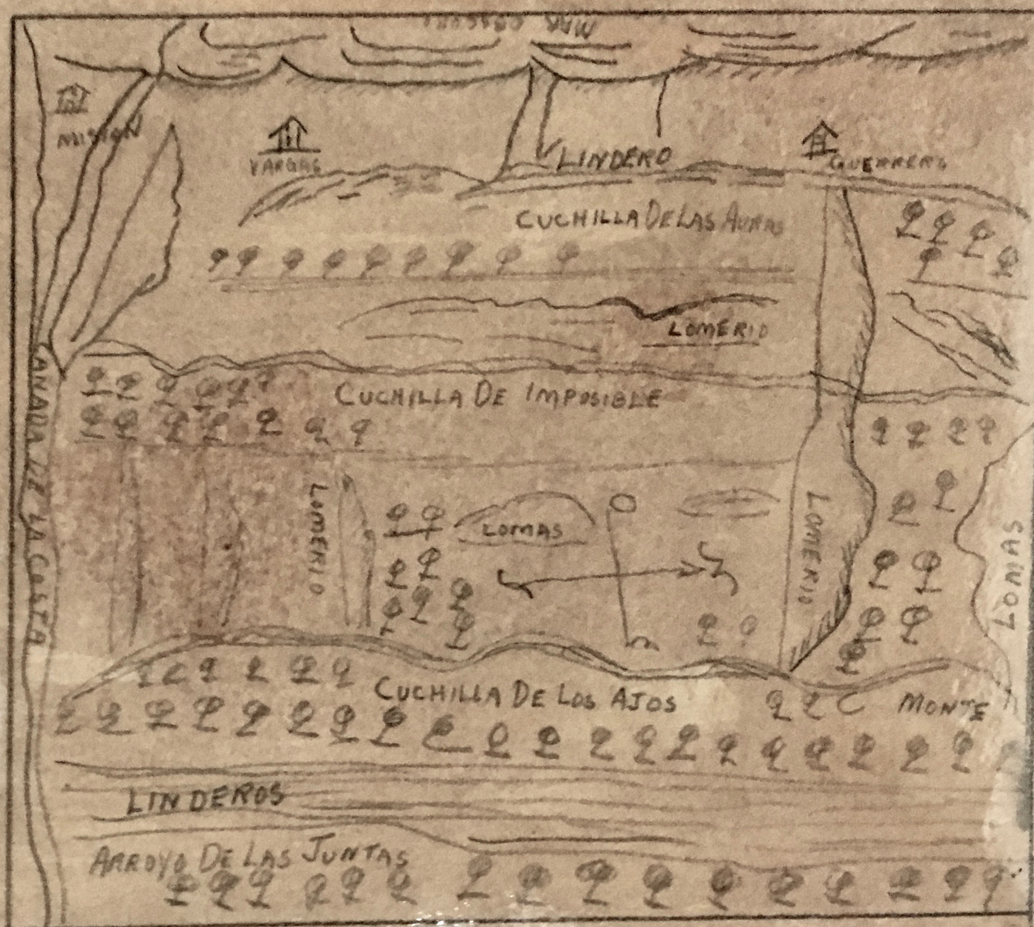 The grant extended north from Rancho Cañada de Raymundo along the San Andreas Valley, west of San Andreas Lake up to Sweeney Ridge. (This map may be a copy of original)